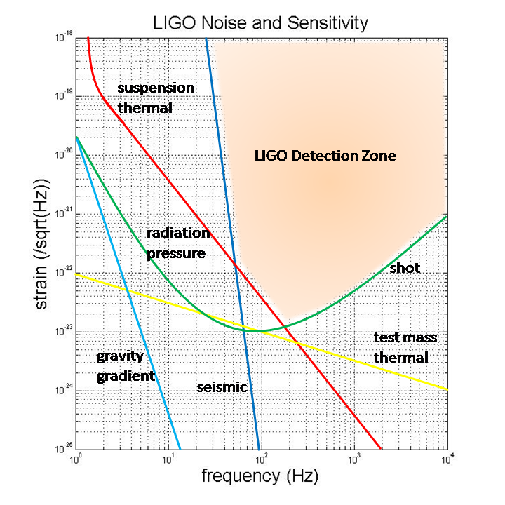 An illustration about LIGO sensitivity and its main noise curves plotted